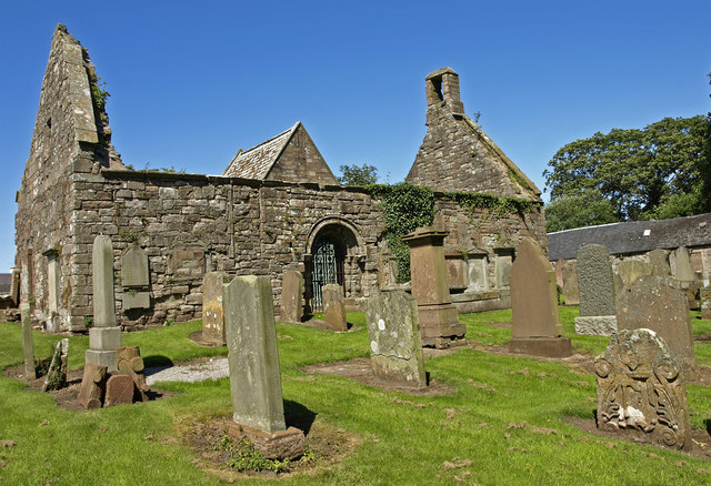 St. Cuthbert's Church, Monkton. Ruined church close to Prestwick Airport.1417356